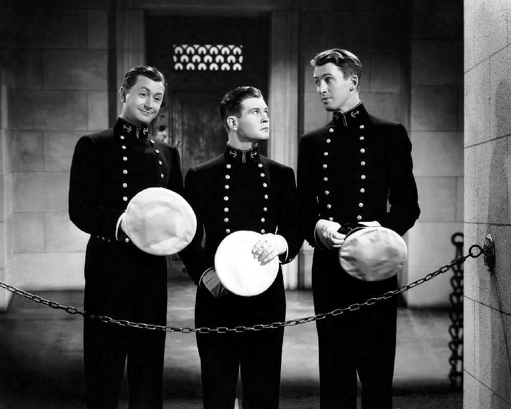 Robert Young, Tom Brown & James Stewart in the American drama-sport film Navy Blue and Gold (1937)